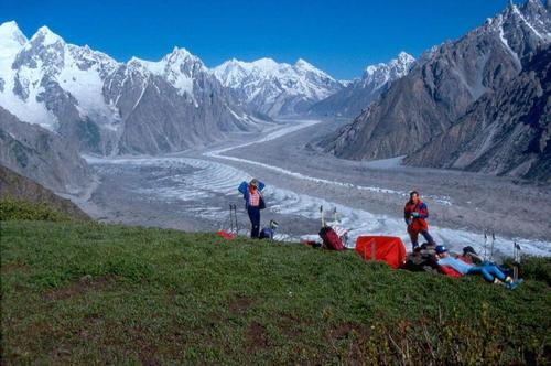 Passu Hunza